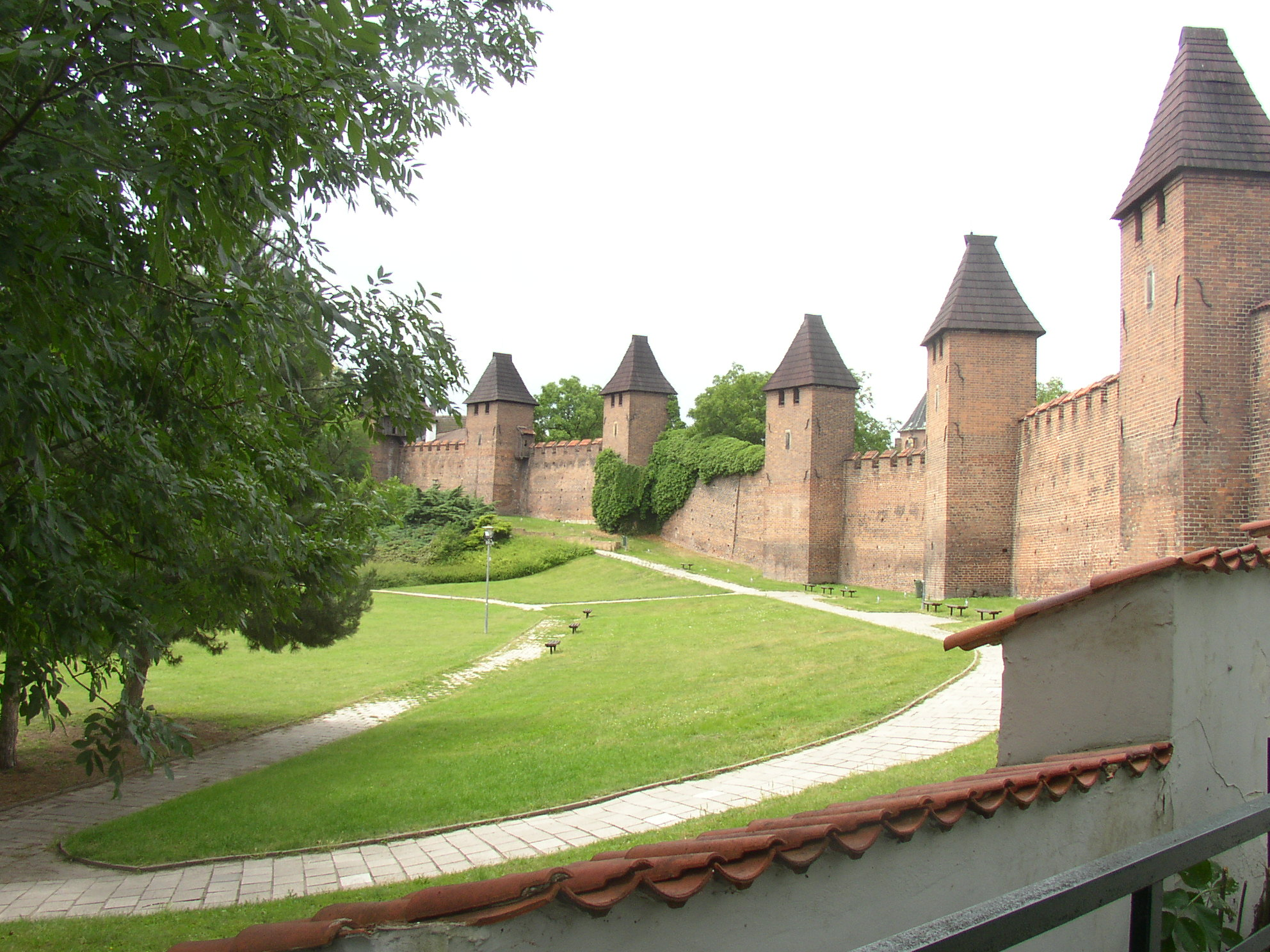 Town walls in Nymburk, Czech Republic